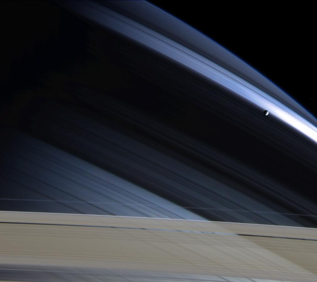 source Mimas and Saturn's rings, taken by Cassini.